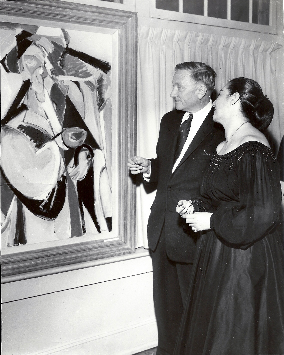 Chief Justice William O. Douglas attended Walinska's 1958 exhibition at the Grey Art Gallery in Washington, DC. Seen in this photo with The Patriarch, 1948, oil on canvas by Walinska.